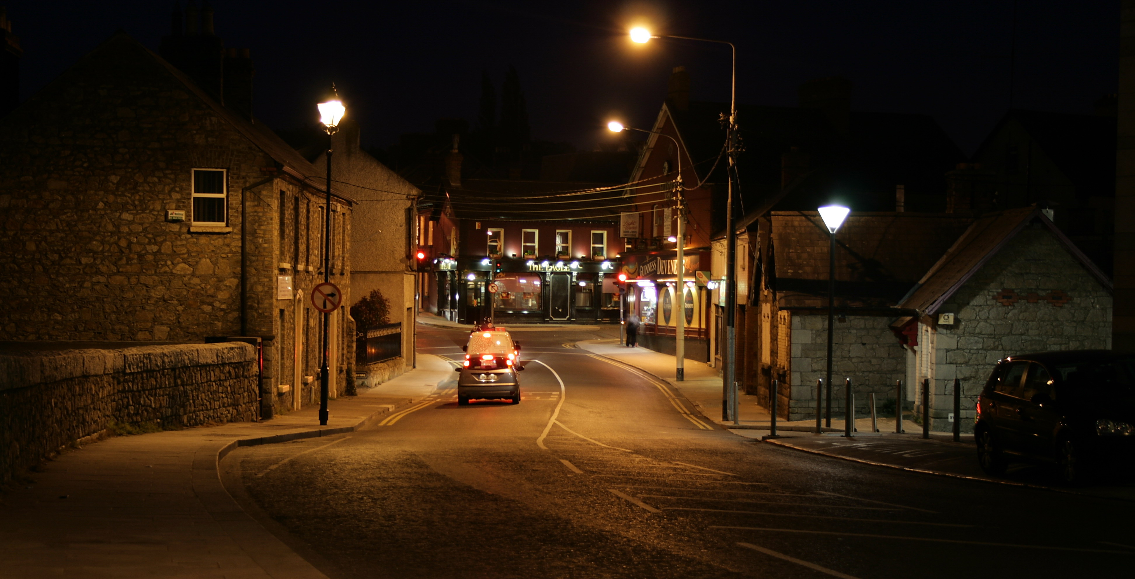 Dundrum Village centre